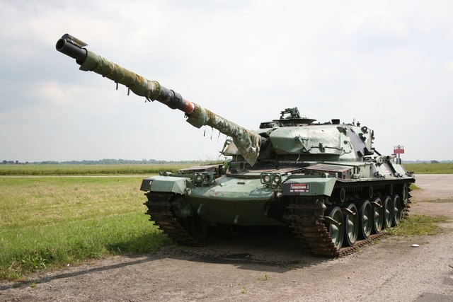 Chieftain tank at RAF Manby